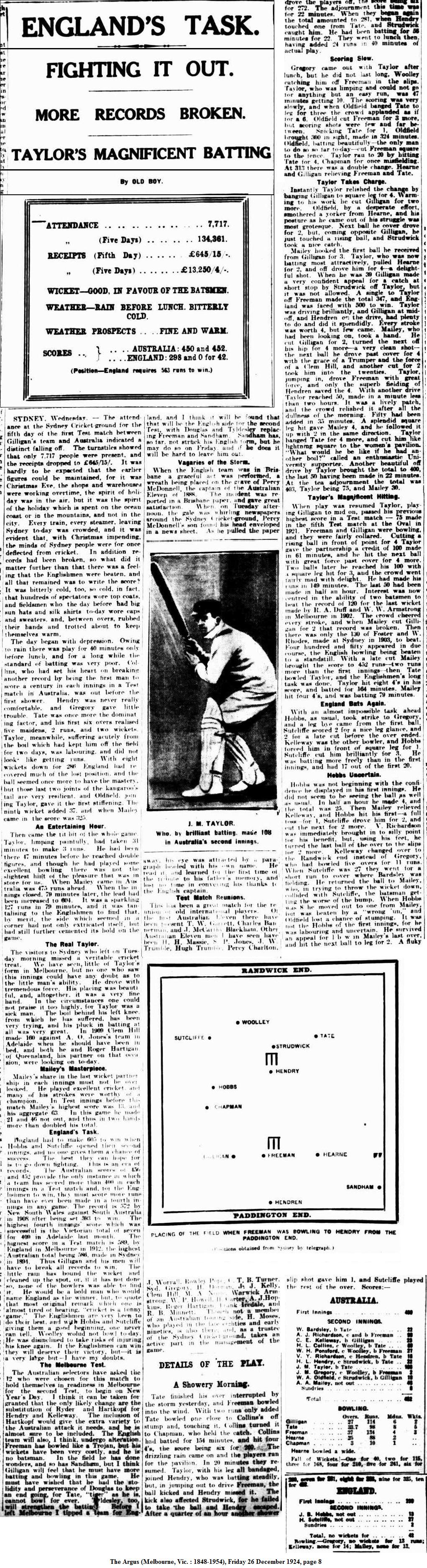 from the National Library Australian newspapers digitisation program which are pre-1955 so no copyright: "The service includes newspapers published in each state and territory from the 1800s to the mid-1950s, when copyright applies."